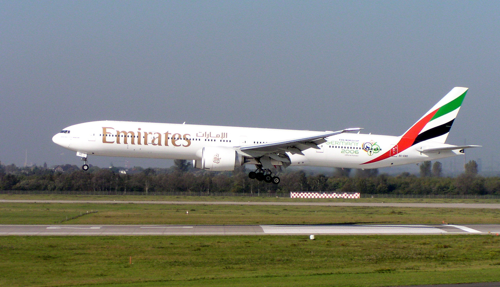 Emirates Boeing 777-300ER (A6-EBD) in Düsseldorf, October 2005. Photographer: Arcturus Licence: GFDL + cc-by-sa-2.0-de